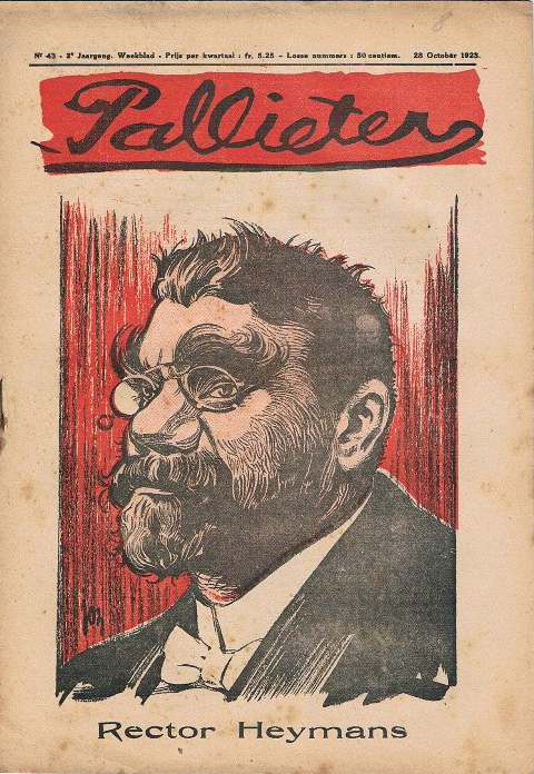 Front page of the Flemish magazine Pallieter (1922-1928). All front pages were designed and illustrated by Jos De Swerts (1890-1939).